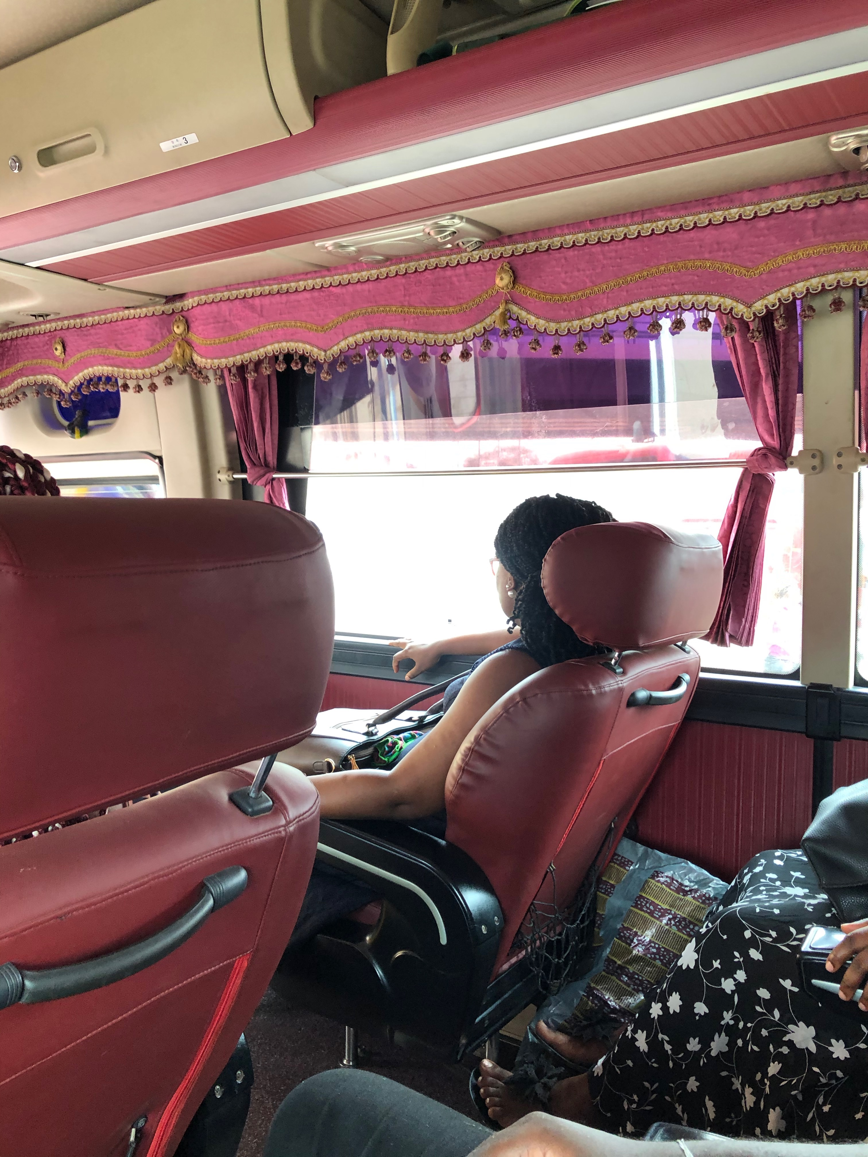 This is an image with the theme "Africa on the Move or Transport" from: Ghana